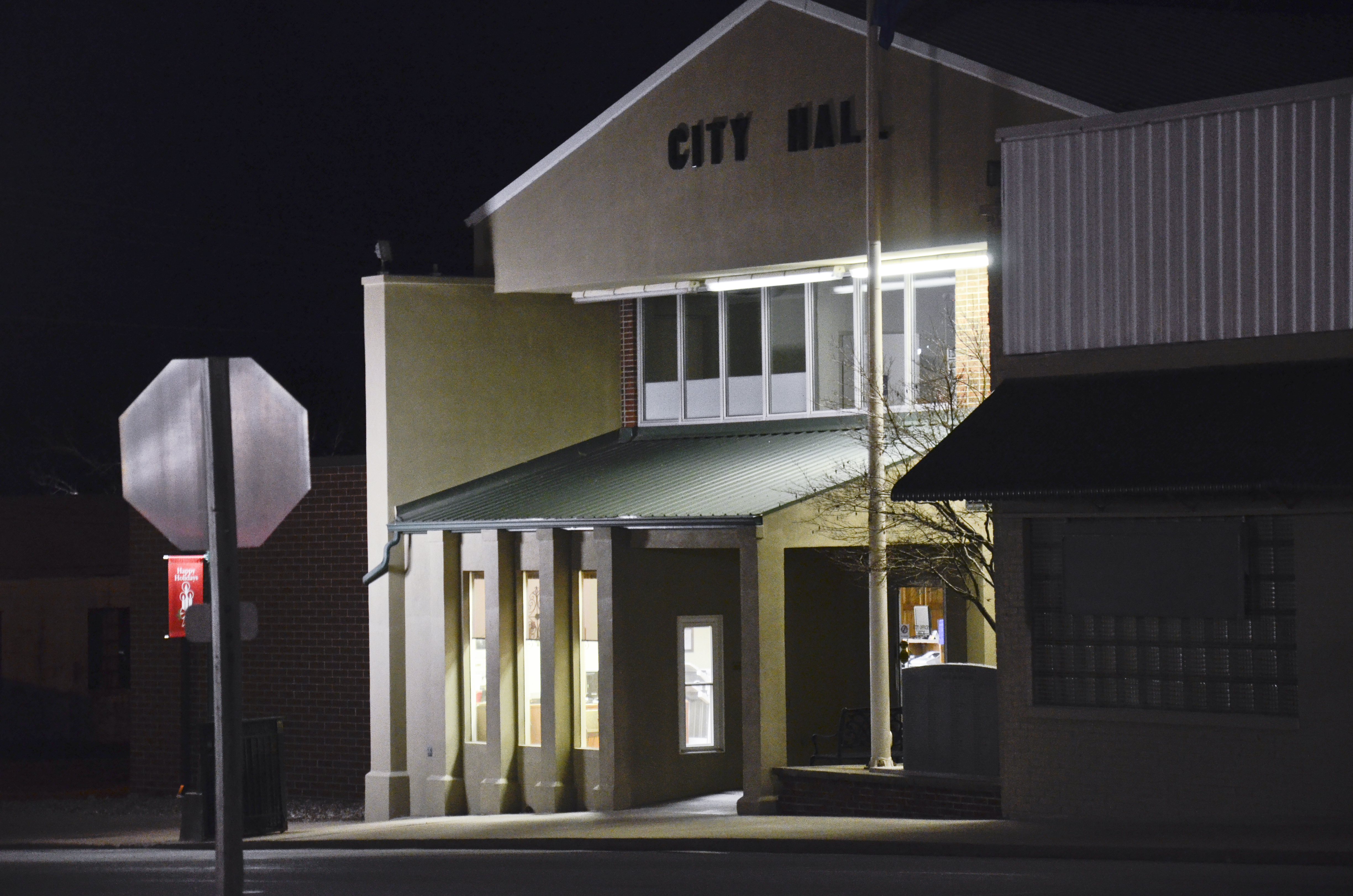 City Hall, Versailles, Missouri